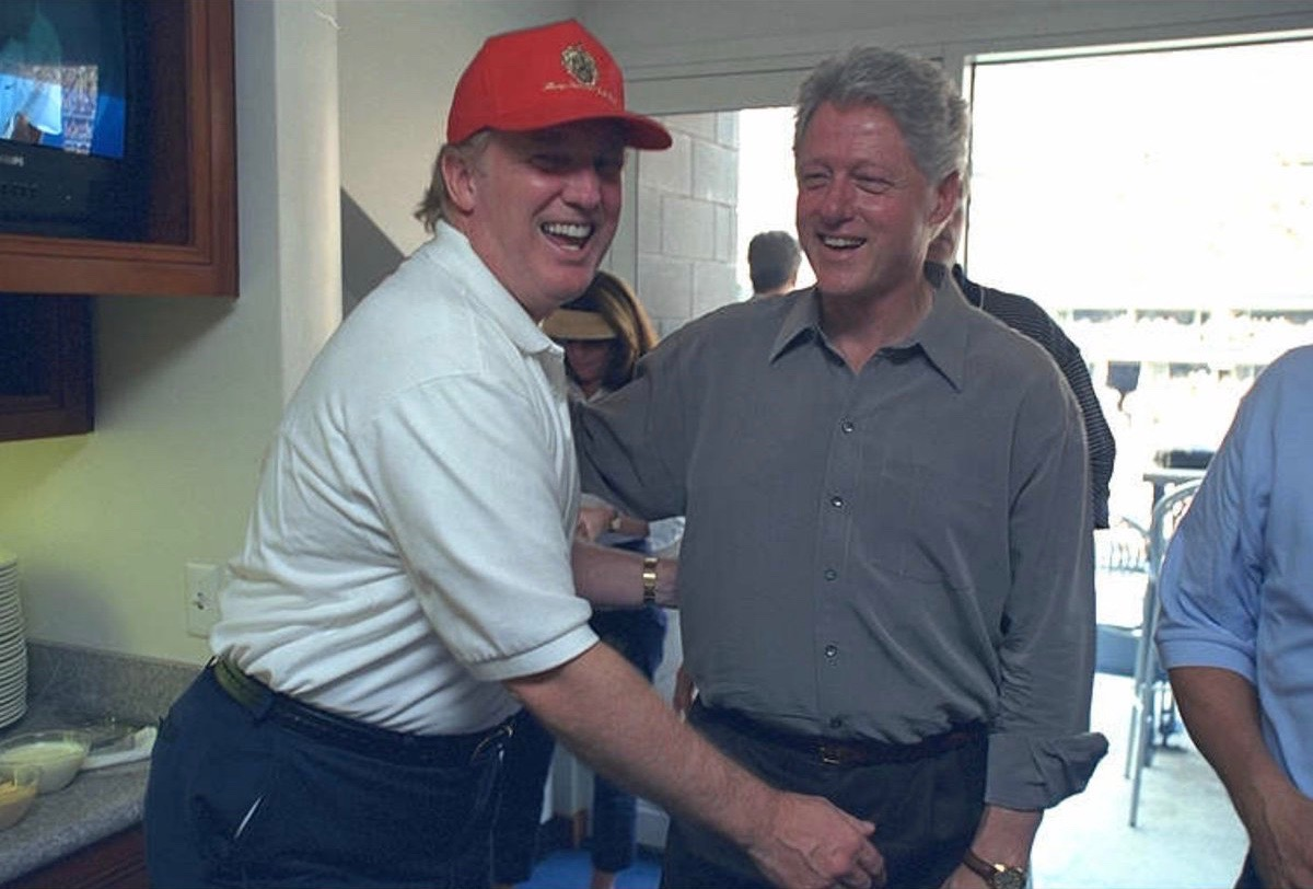 Bill Clinton and Donald Trump at the U.S. Open in 2000, Flushing, New York